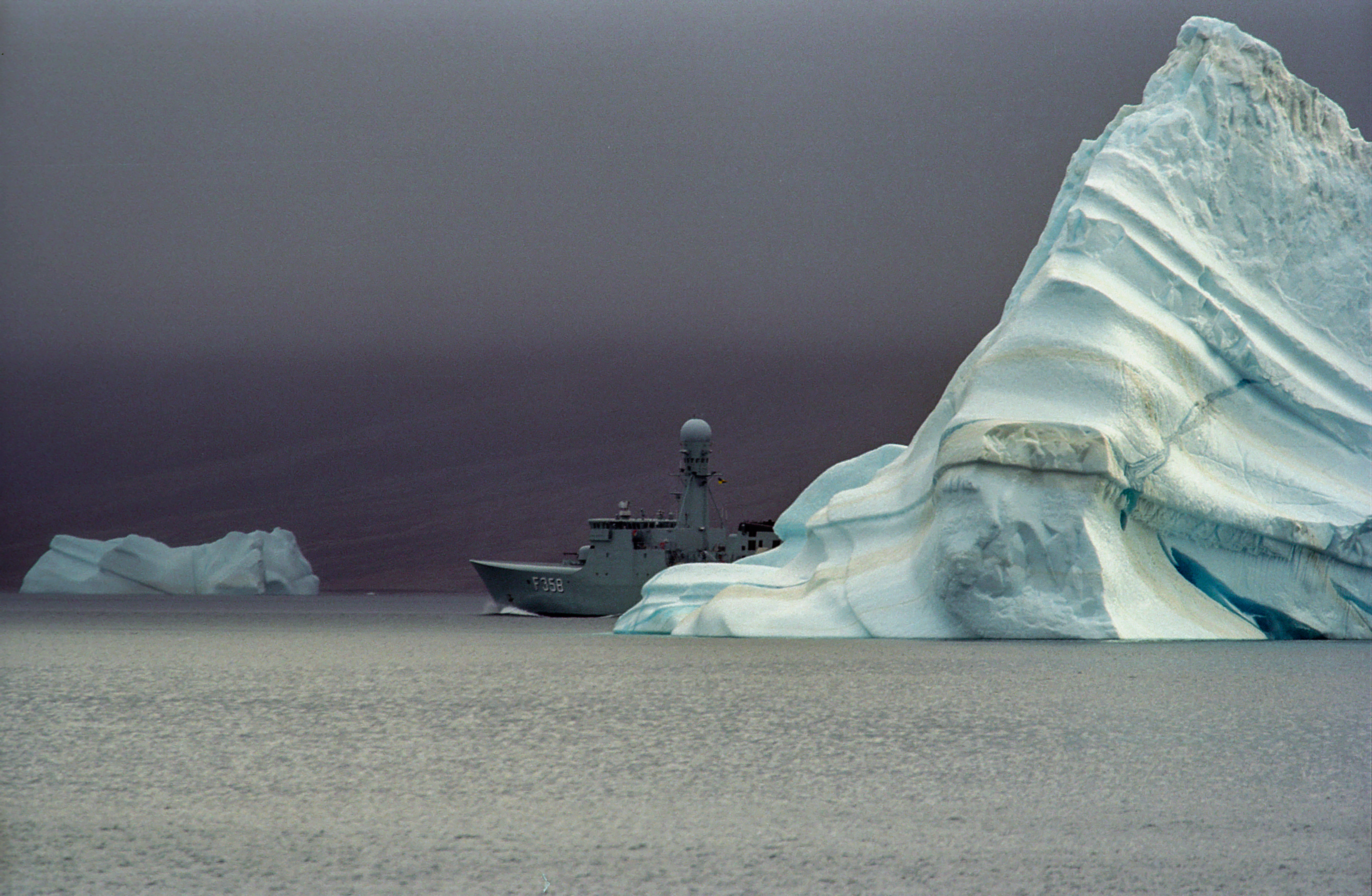 HDMS Triton, danish ocean patrol vessel in Franz Josef Fjord, Greenland